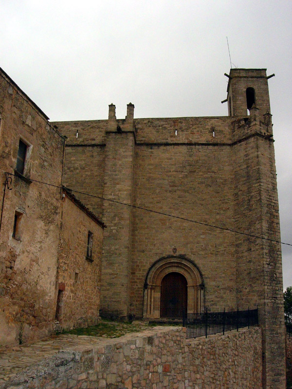 It is a image of the Església de Santa Maria de Rubió